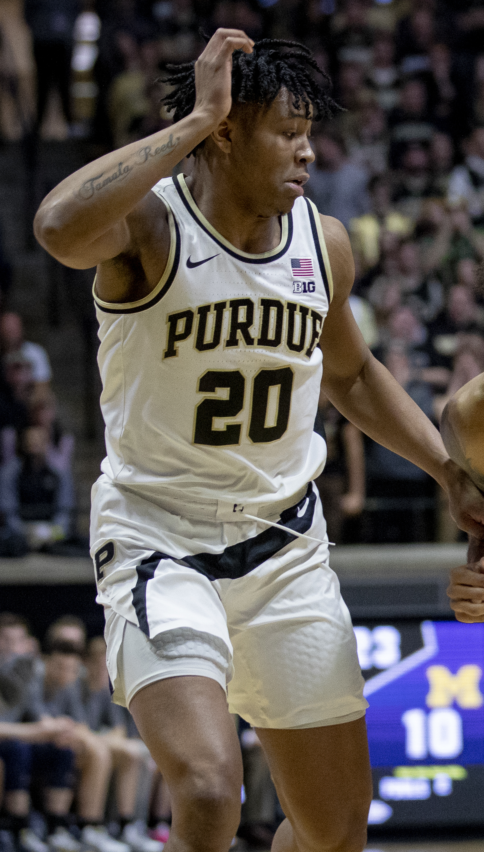 Michigan vs. Purdue